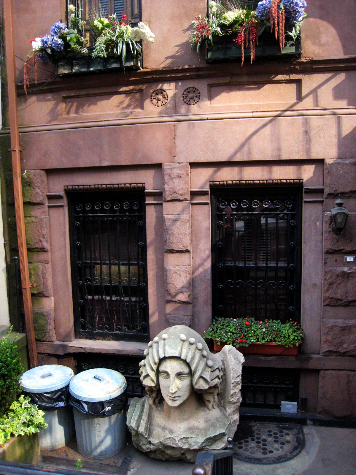 For more info on this east-side relic of the old Ziegfeld theatre